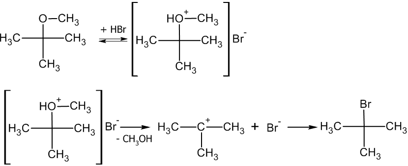 Sn1 ether